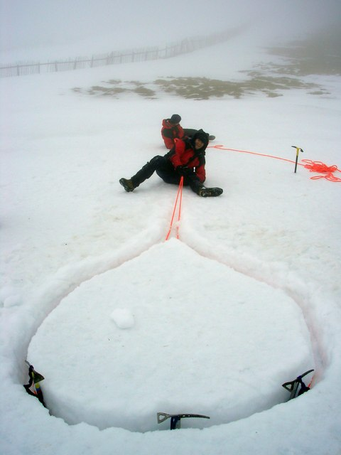 A Snow Bollard on Meall Odhar